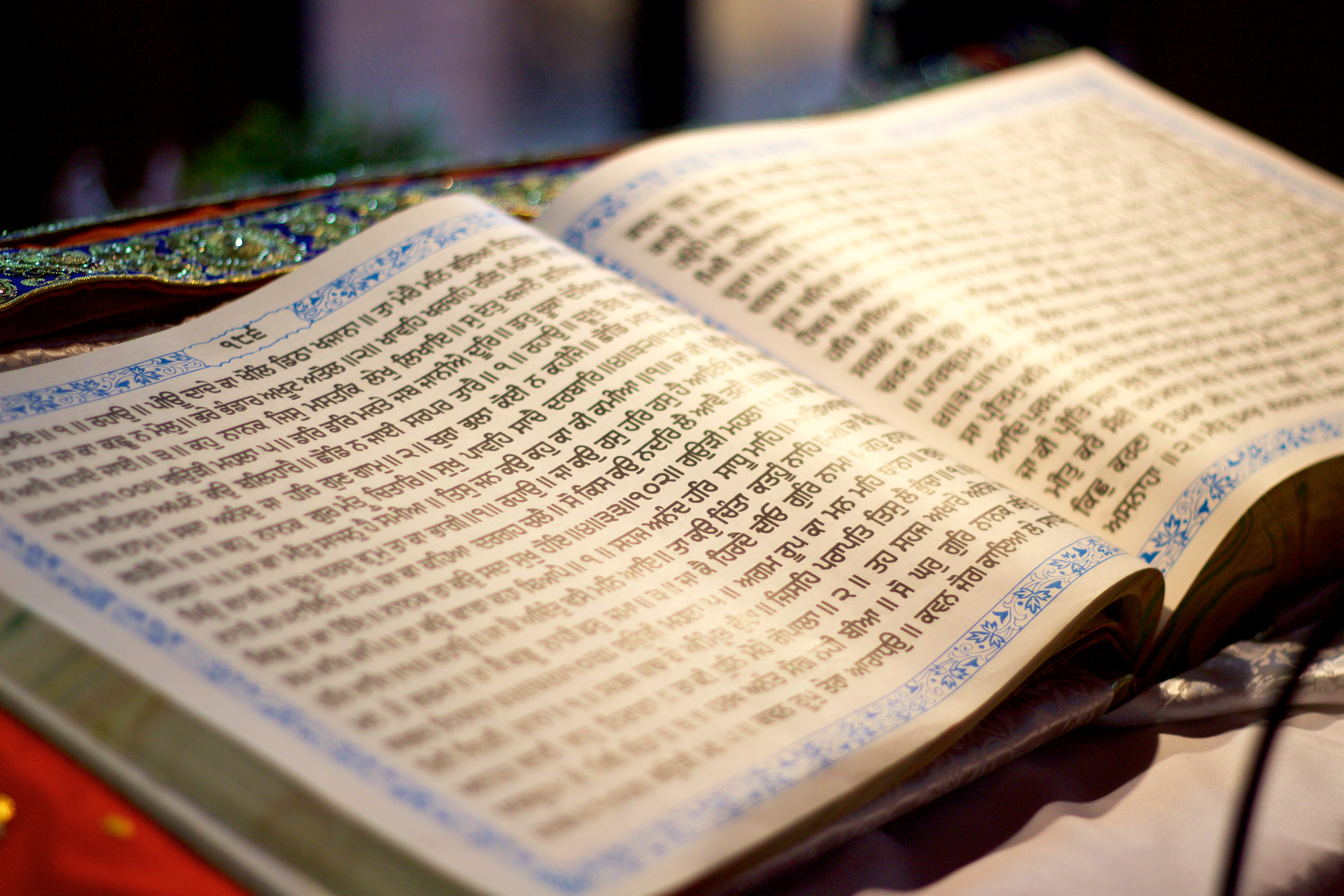 Primary scripture, holy book of Sikhism